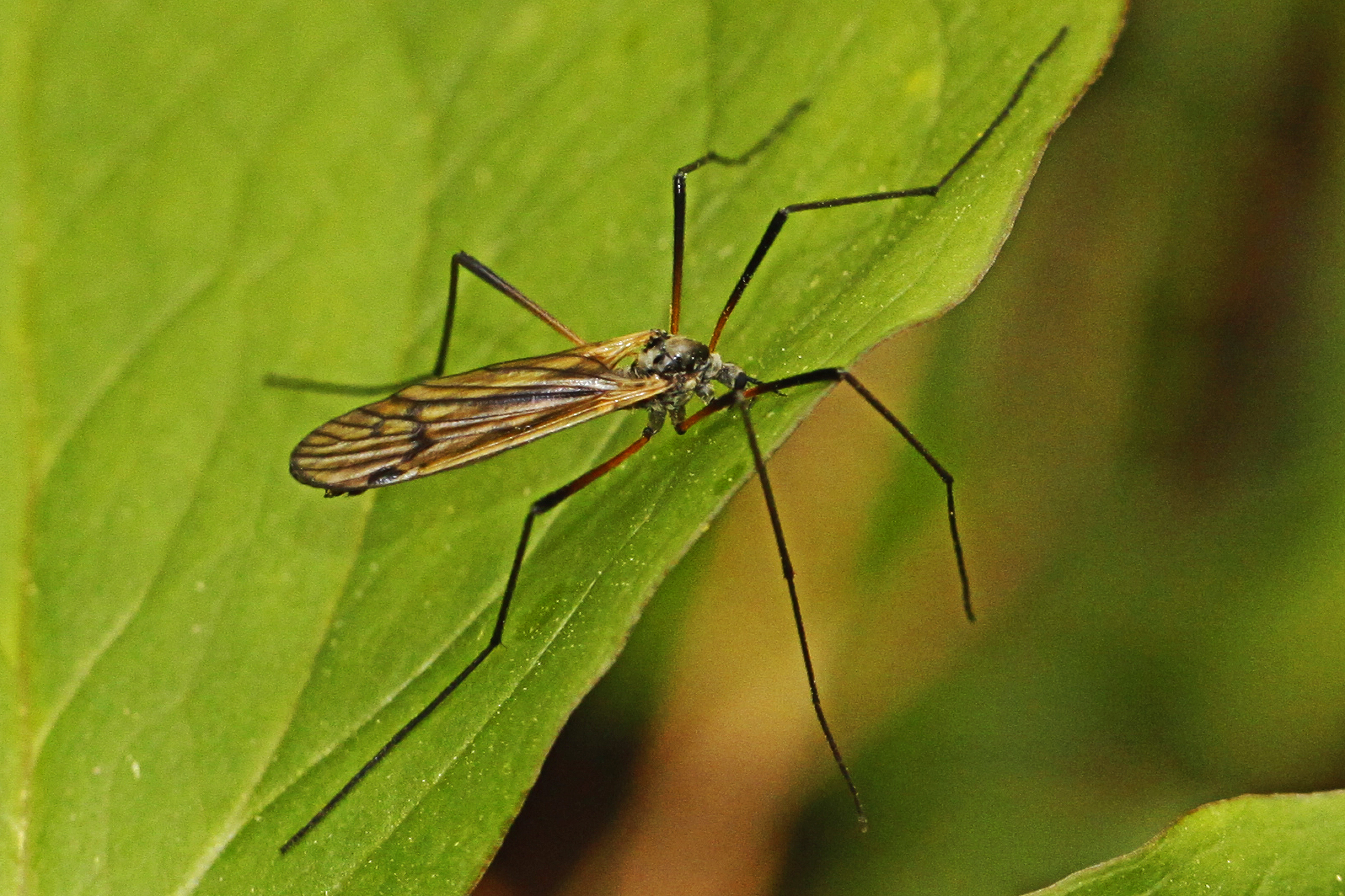 Crane Fly - Limnophila rufibasis, Thompson WMA, Virginia.